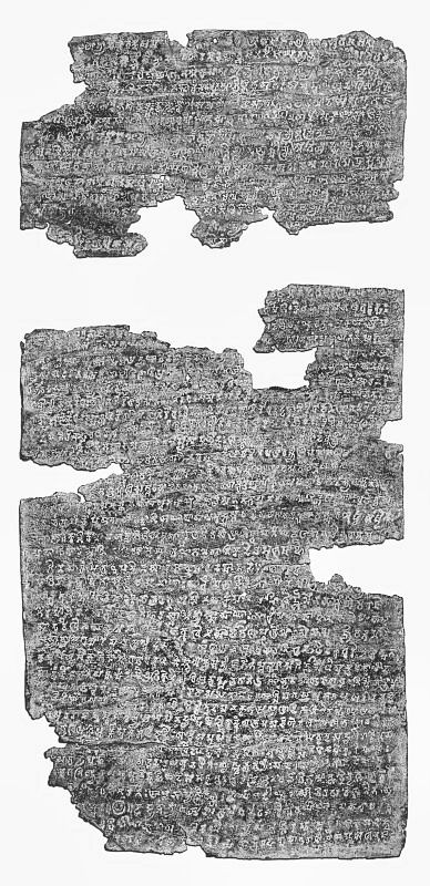 Talagan copper scroll, 5th century CE